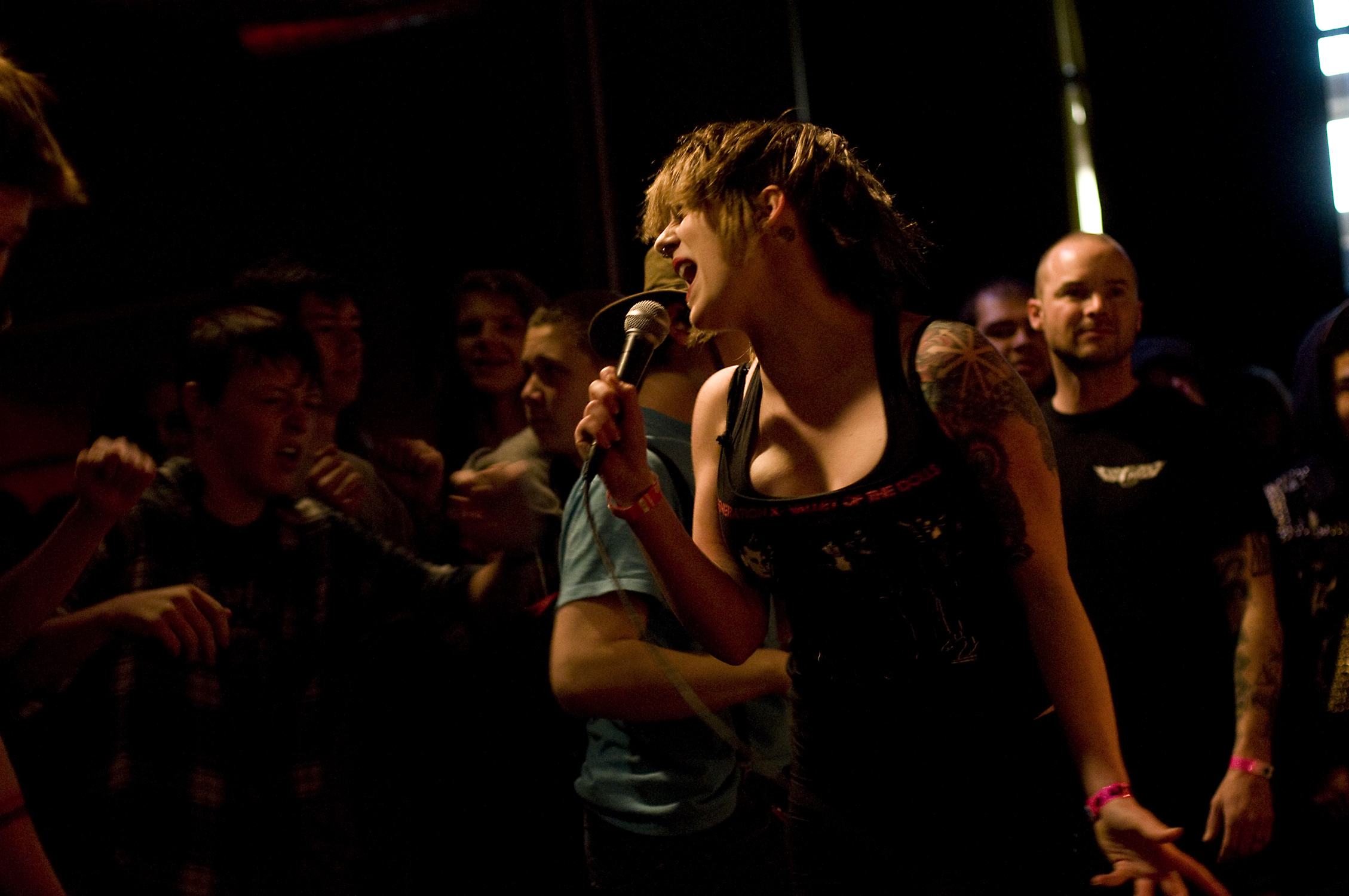 Little Miss and The No Names perform punk influenced by hardcore at an old school all-ages show held at the Linen Building at the second annual Treefort Music Fest in Boise, Idaho.